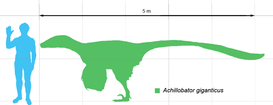 Size of the dromaeosaurid theropod Achillobator giganticus compared to a human. Scaled based on the type specimen FR.MNUFR-15. Perle, Norell and Clark, 1999. A new maniraptoran Theropod - Achillobator giganticus (Dromaeosauridae) - from the Upper Cretaceous of Burkhant, Mongolia. Contribution no. 101 of the Mongolian-American Paleontological Project. 1-105.